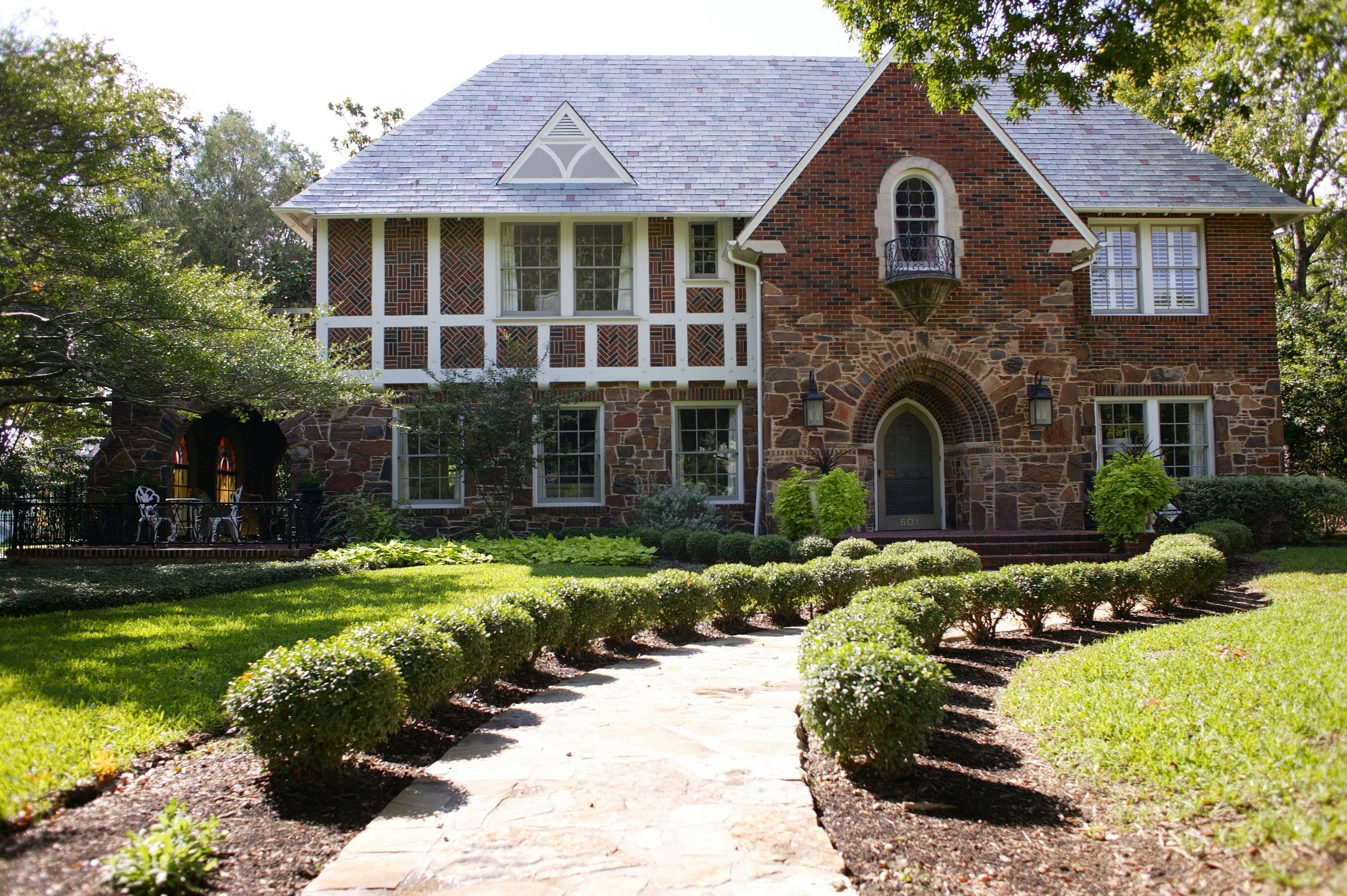 W. R. Hill House Taken 9/30/2012